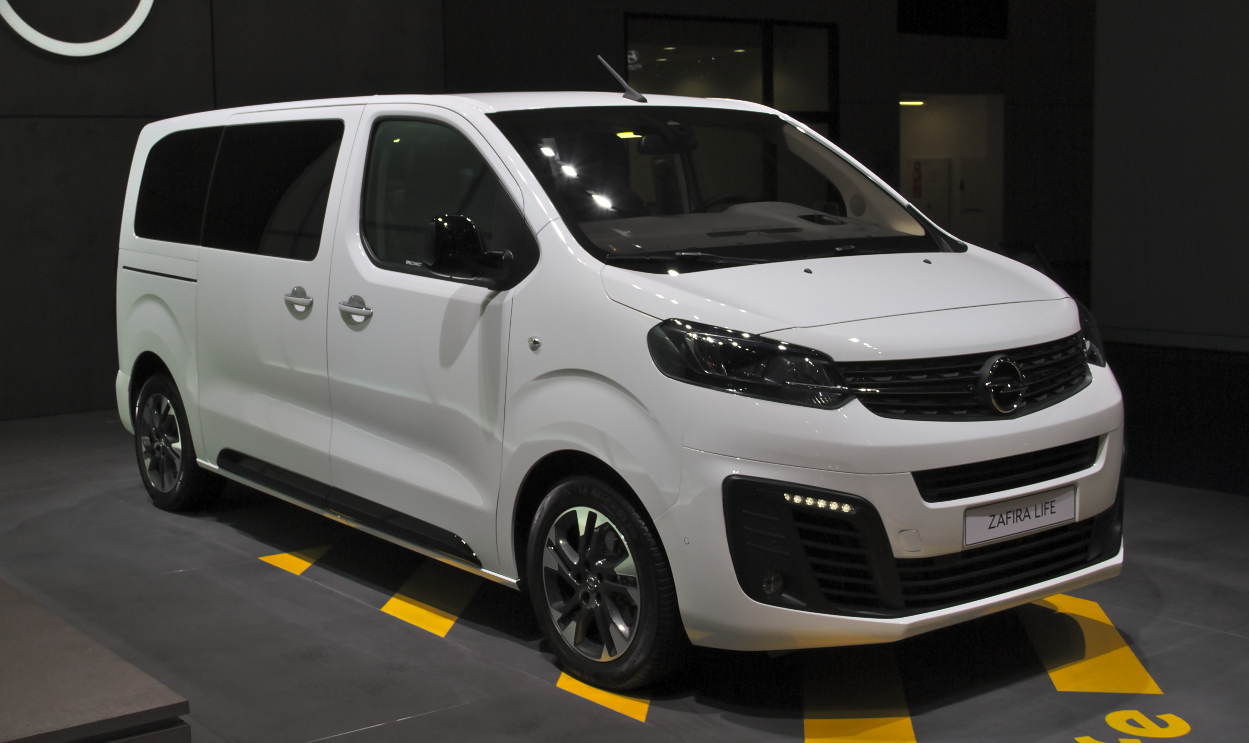 Opel_Zafira_Life at IAA 2019